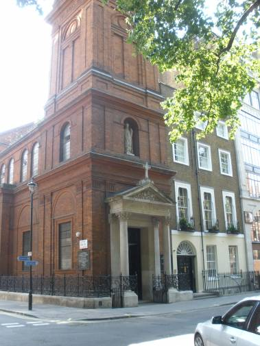 St Patrick Roman Catholic church Soho Square